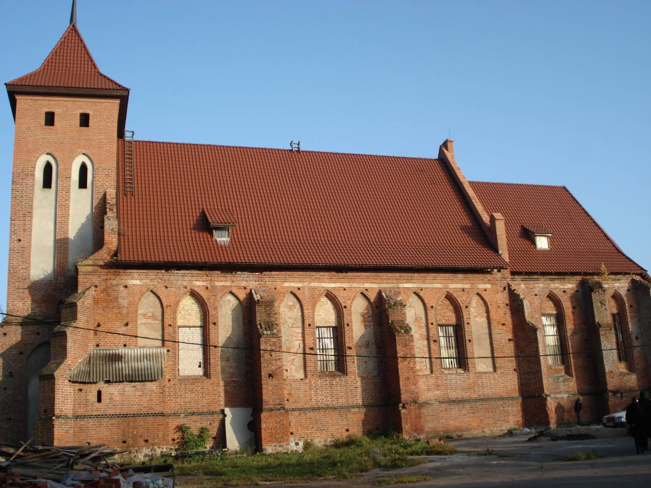 St. Catharine church in Marjino (Arnau) from the South